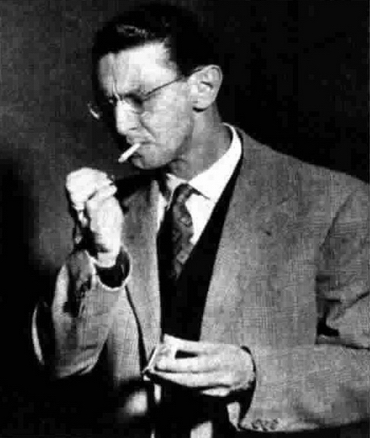 The composer Ennio Porrino